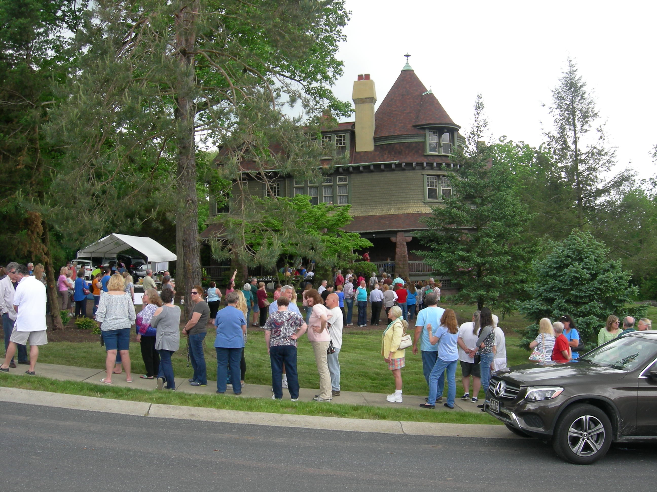 Line for May 20, 2018 Open House.